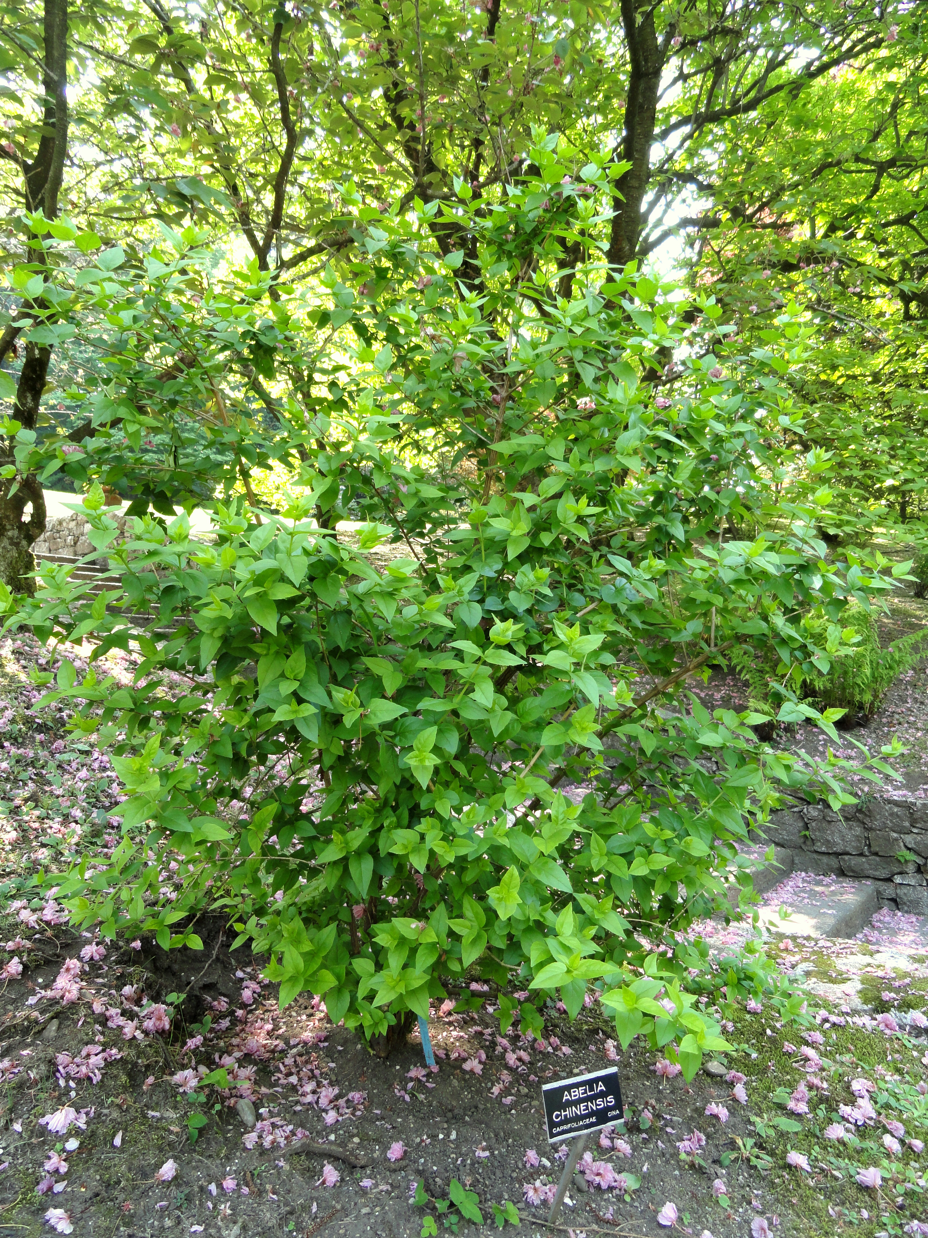 Abelia chinensis. Botanical specimen on the grounds of the Villa Taranto (Verbania), Lake Maggiore, Italy.